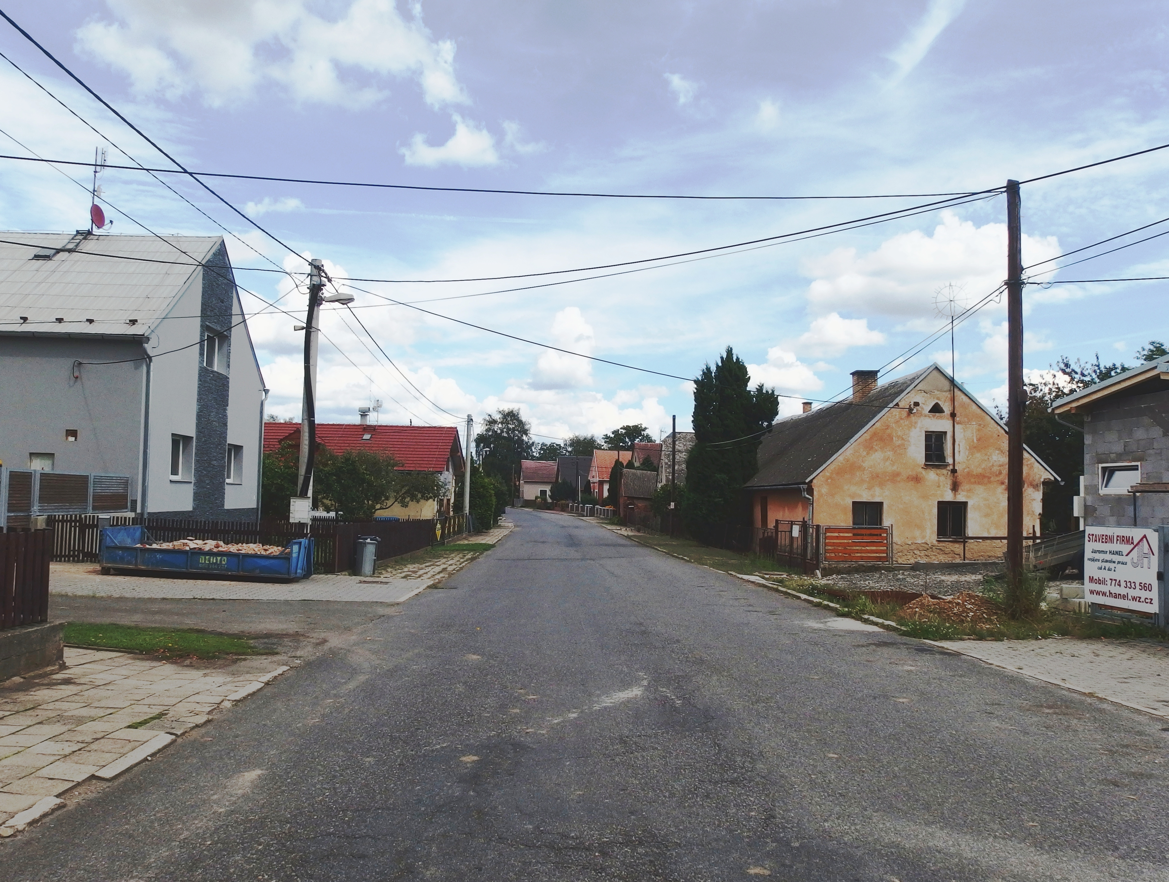 Velké Heraltice, Opava District, Czech Republic, part Tábor.